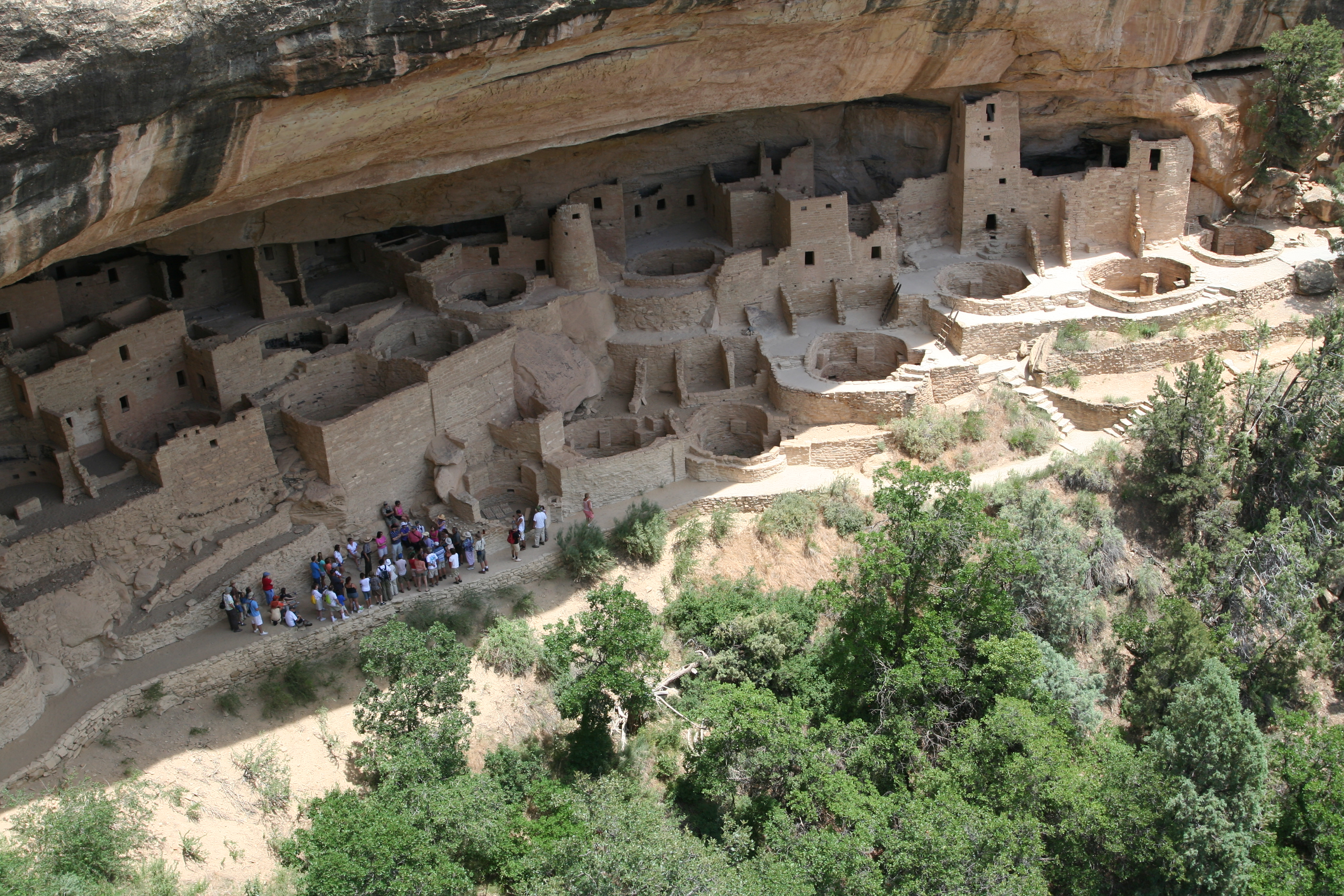 A photograph taken of the Cliff Palace in Mesa Verde National Park, Colorado.